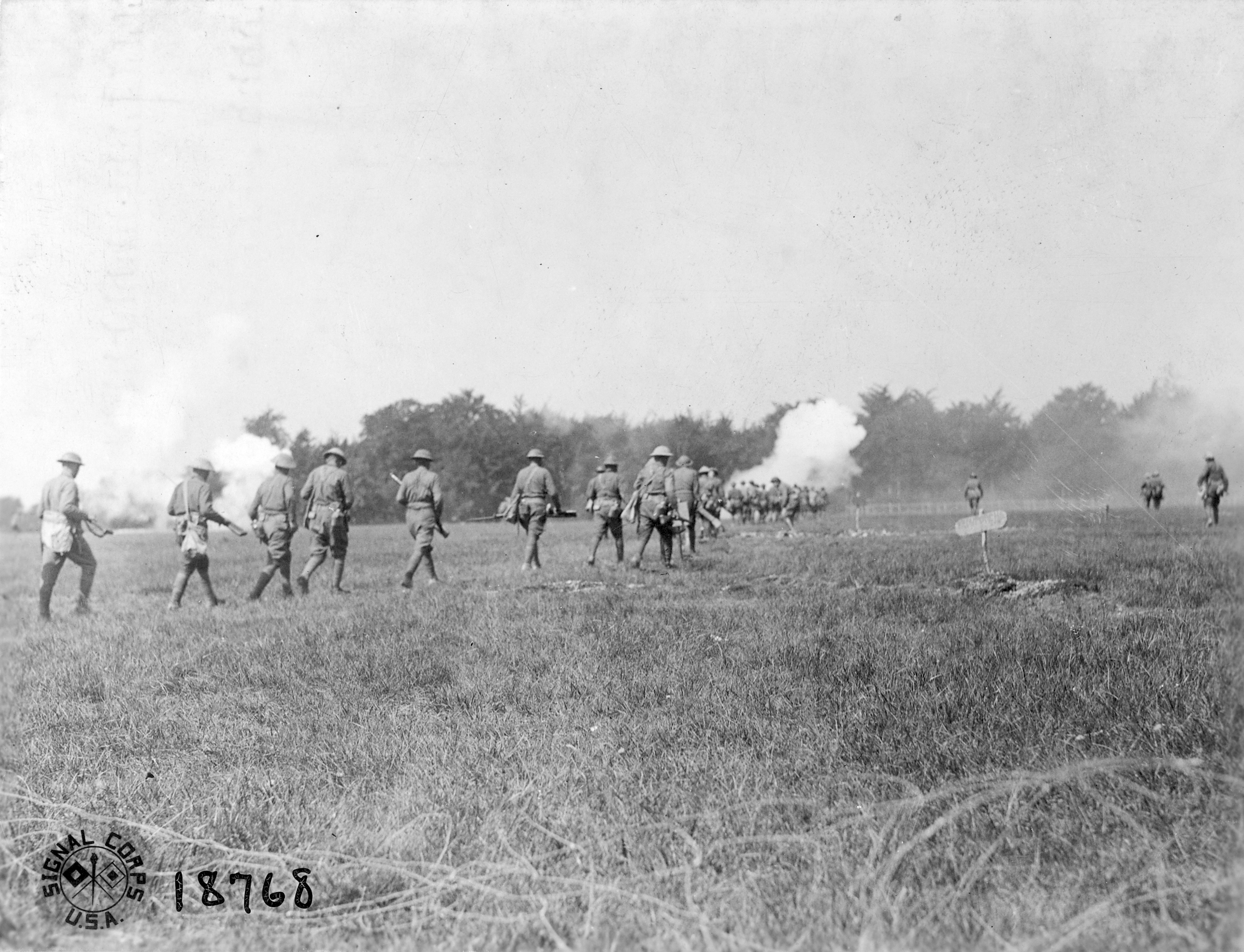 The United States Army in France, 1918 Troops of the 326th Regiment moving forward German trenches at Choloy.